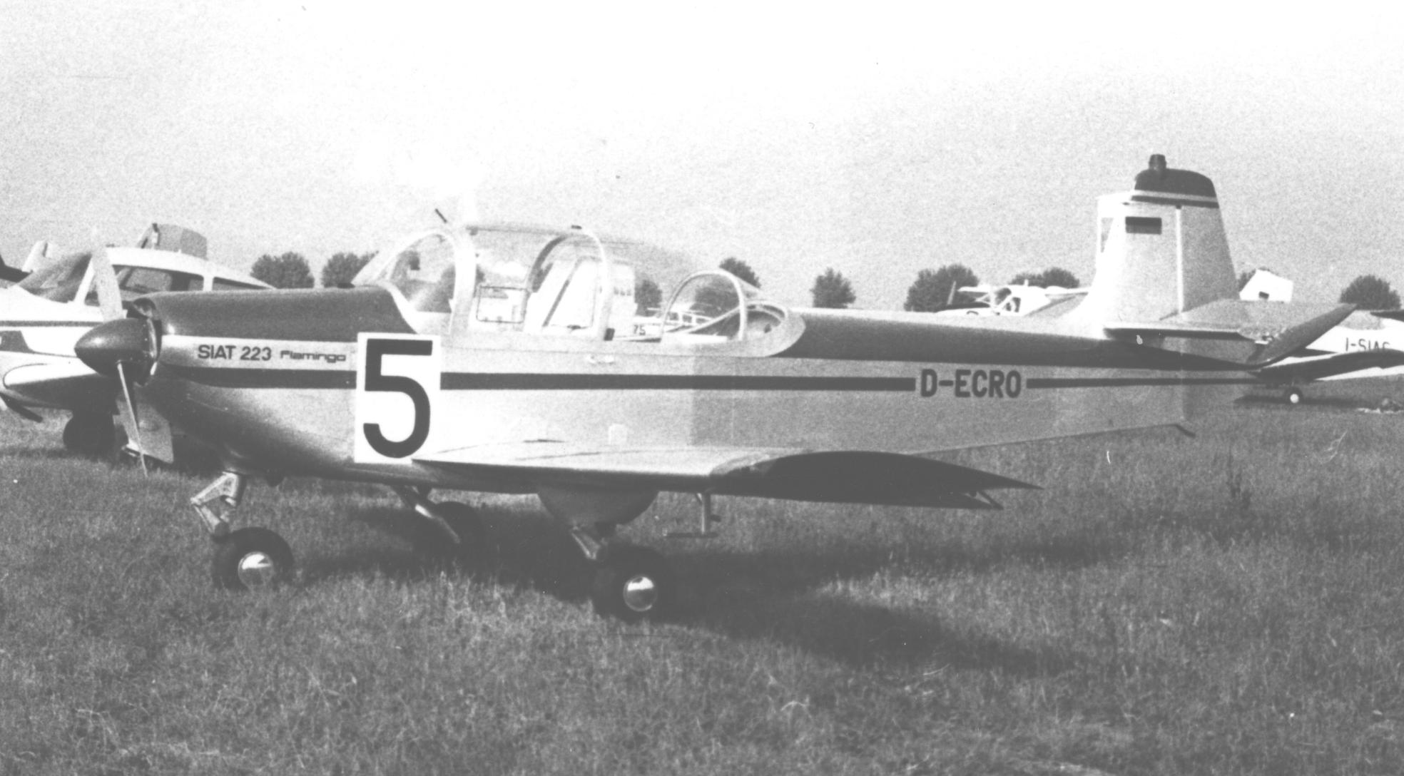 SIAT built S.223 Flamingo D-ECRO at the Paris Air Salon